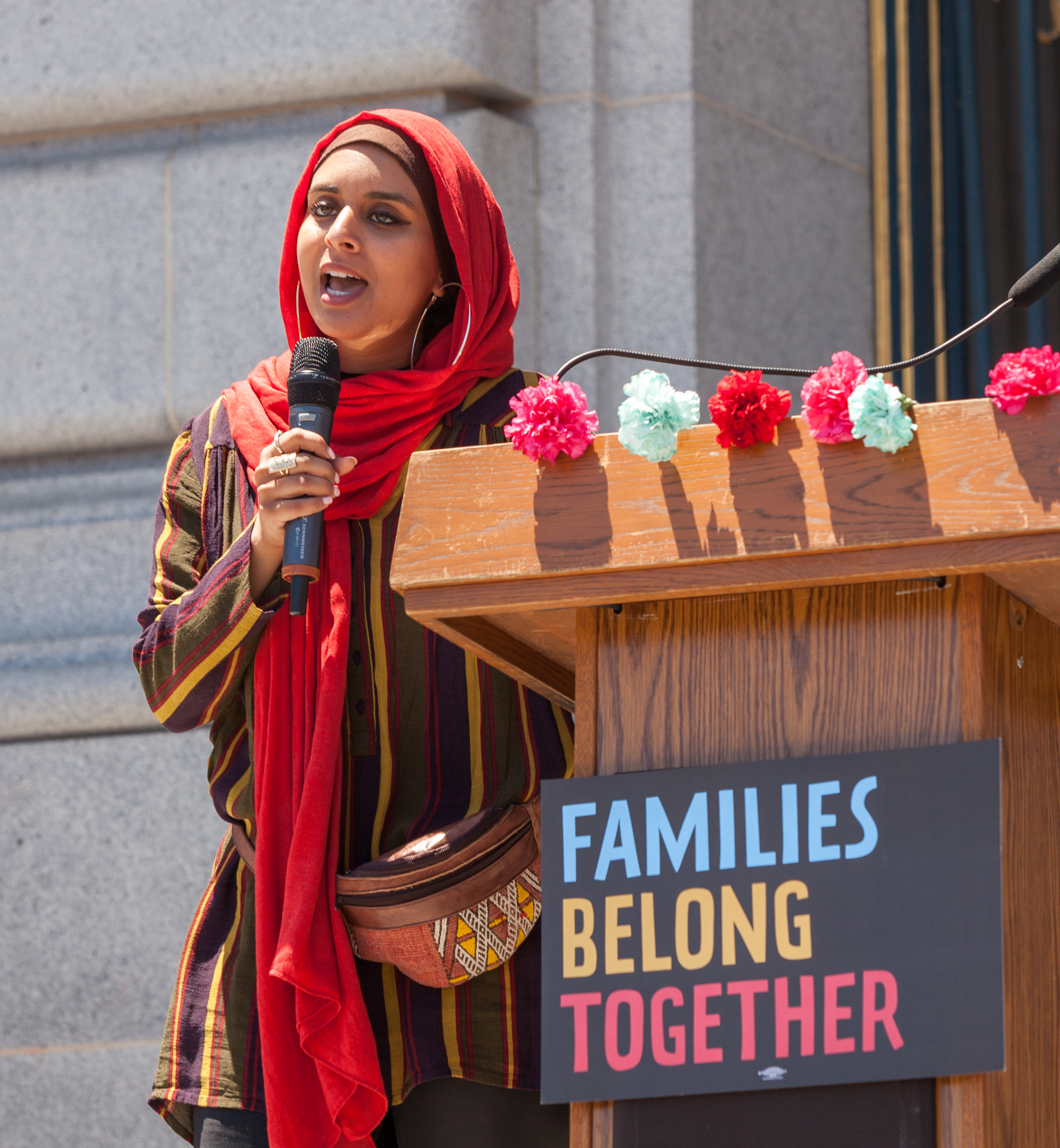 Rana Abdelhamid of Amnesty International speaks on the steps of San Francisco City Hall for a "Families Belong Together" rally.